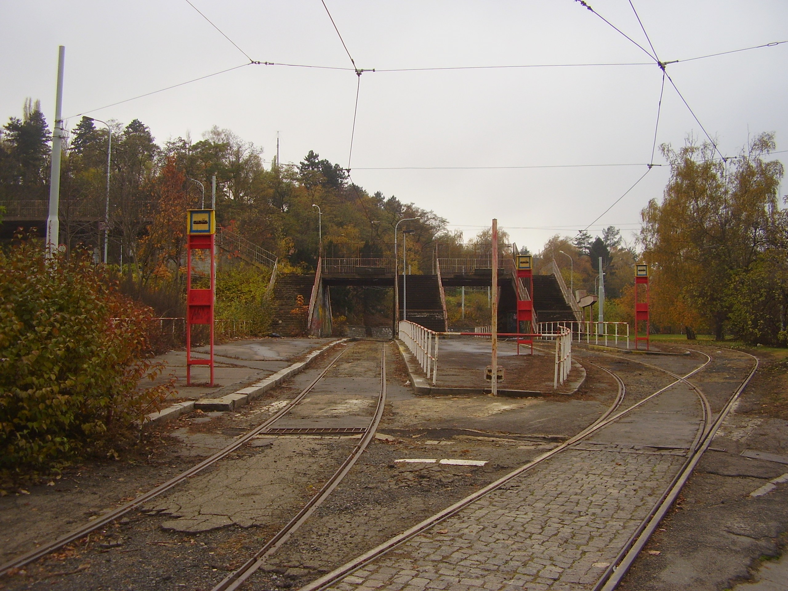 Tram stops, Tram turning place Dlabačov, Prague